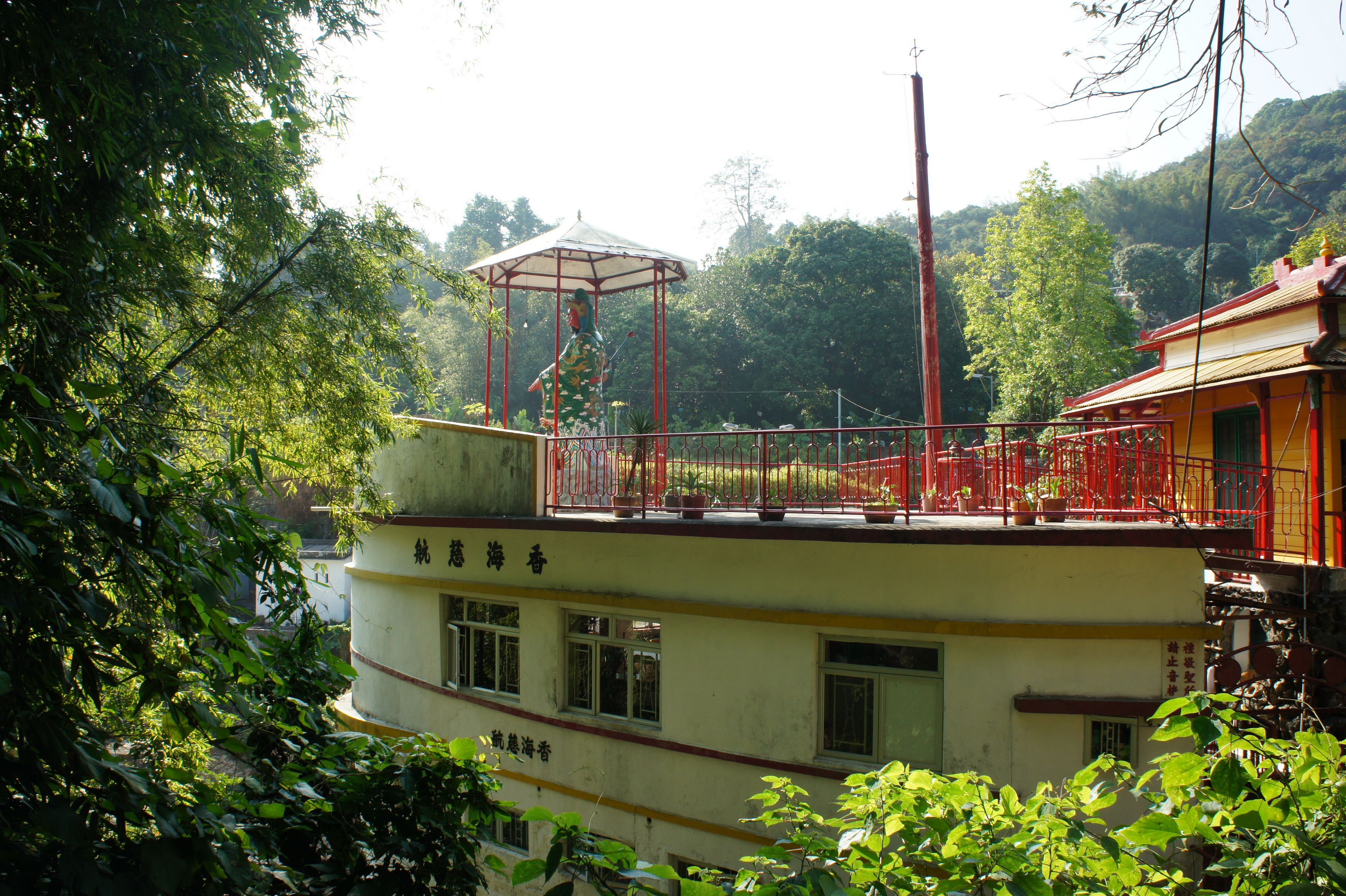 Heung Hoi Chi Hong (Ship Temple), Tsuen Wan, New Territories, Hong Kong.